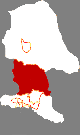 Locator map of Guyang County in Baotou City, Inner Mongolia, China